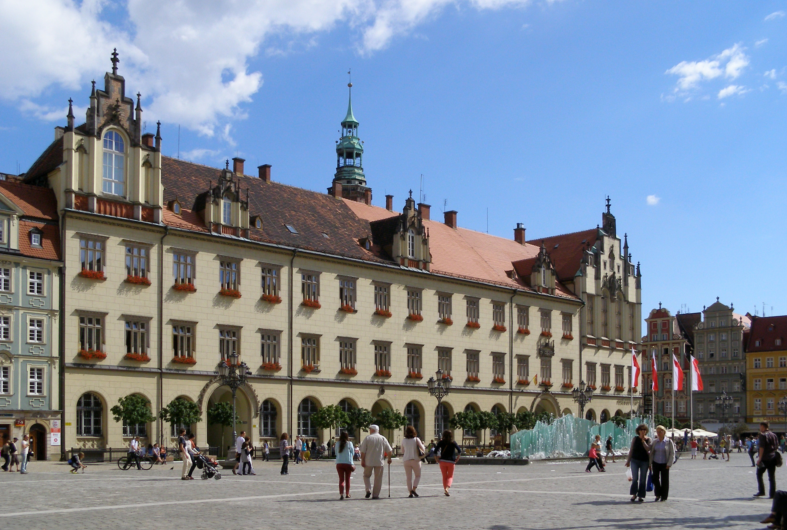 Wrocław - New Town Hall